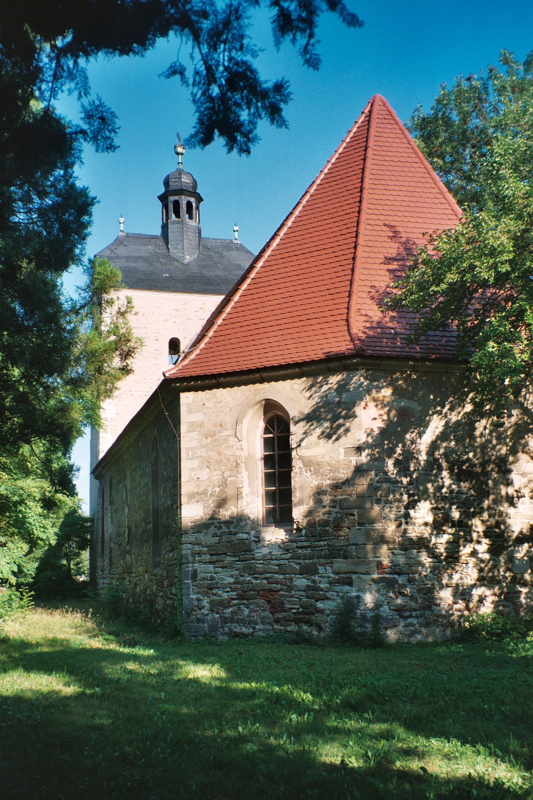 Hohenweiden (Schkopau), the village church